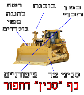 Bulldozers blade